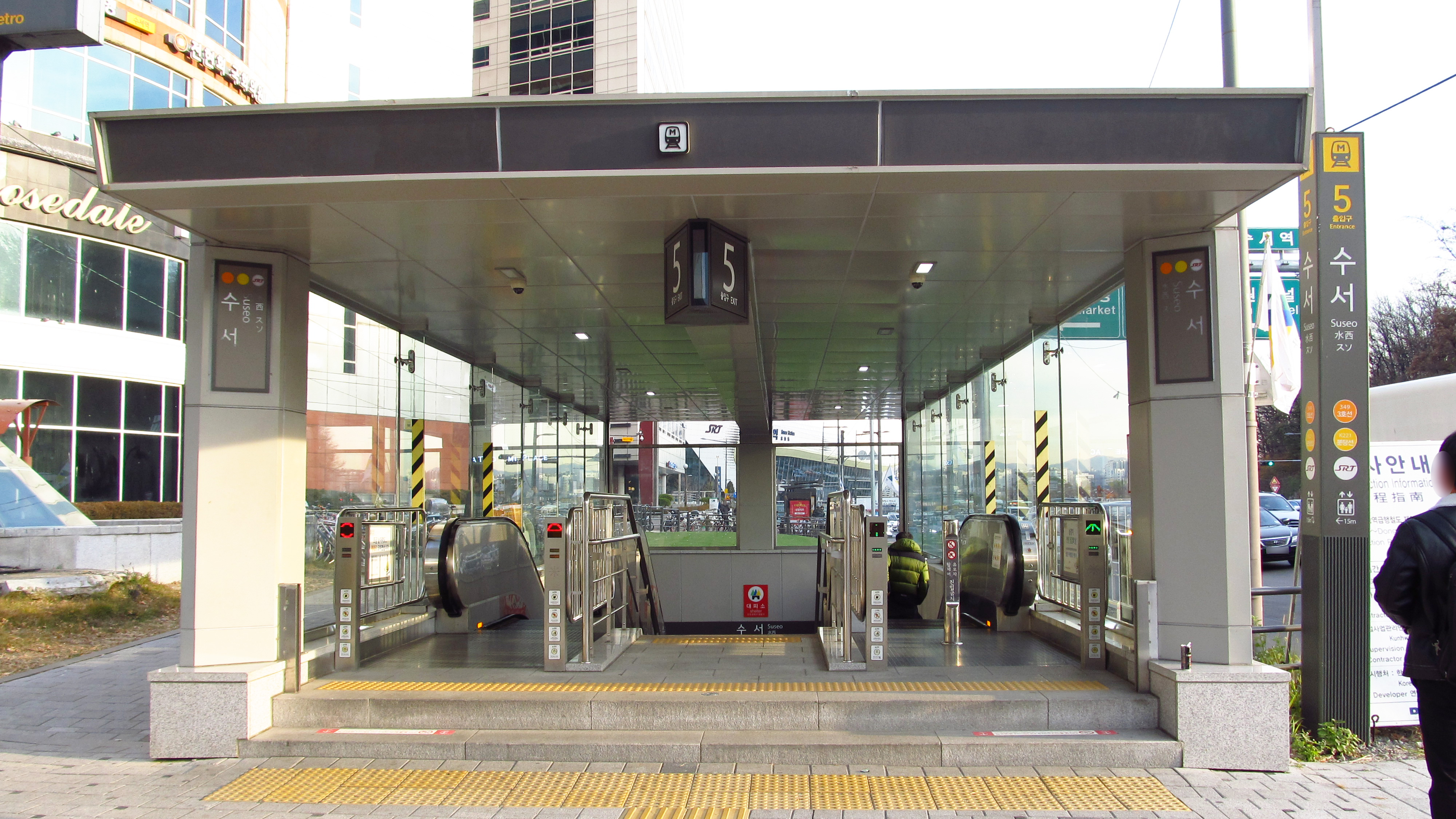 The no.5 entrance to Suseo Station on Seoul Subway Line 3 and Bundang Line in Gangnam-gu, Seoul, Republic of Korea(South Korea)